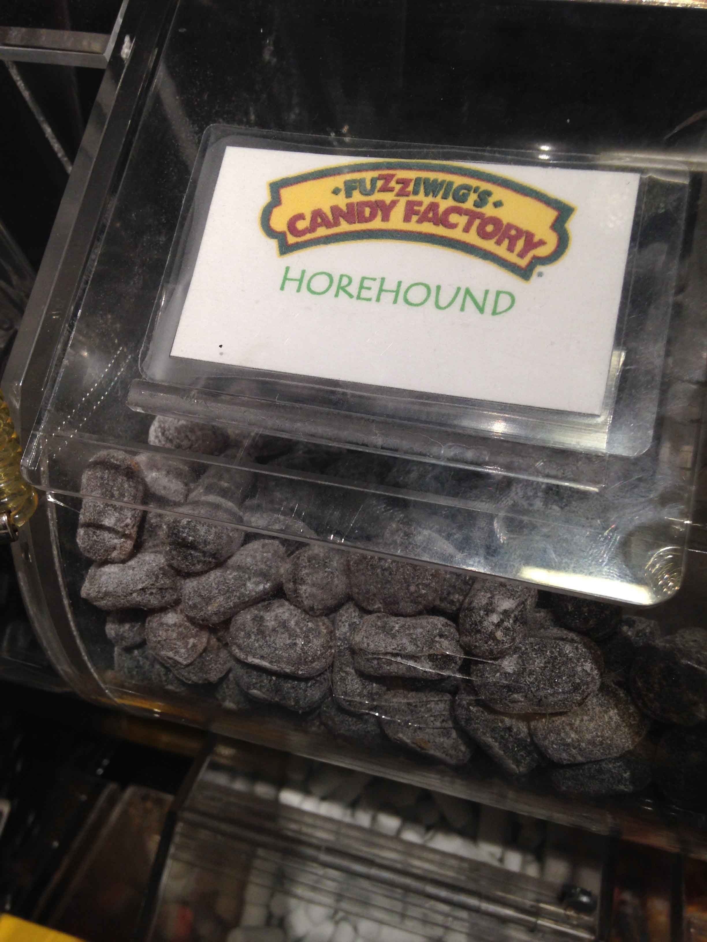 Horehounds are dark-colored candies that are sometimes used as a folk treatment for coughs, flavored with the horehound plant (which is part of the mint family).